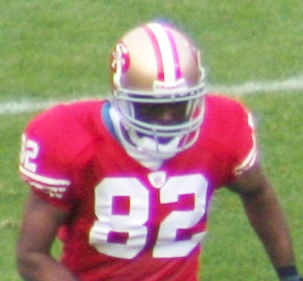 San Francisco 49ers running back Frank Gore takes the ball from a handoff from quarterback Trent Dilfer in the November 18, 2007 game against the St. Louis Rams.